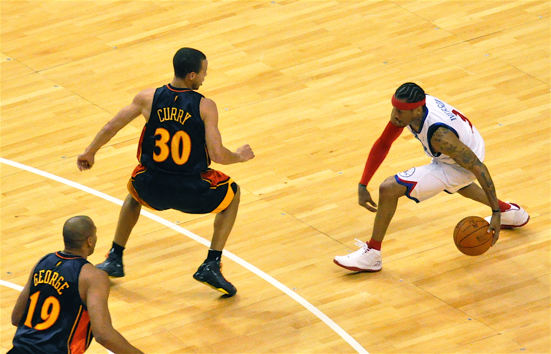 Stephen Curry of the Golden State Warriors defending Allen Iverson of the Philadelphia 76ers.